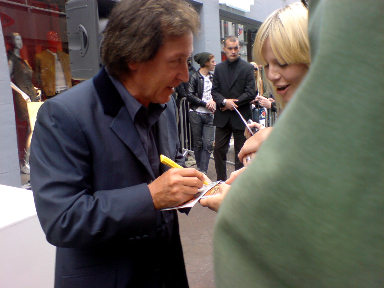 Kenney Jones signing an autograph for a fan, 2007 London.